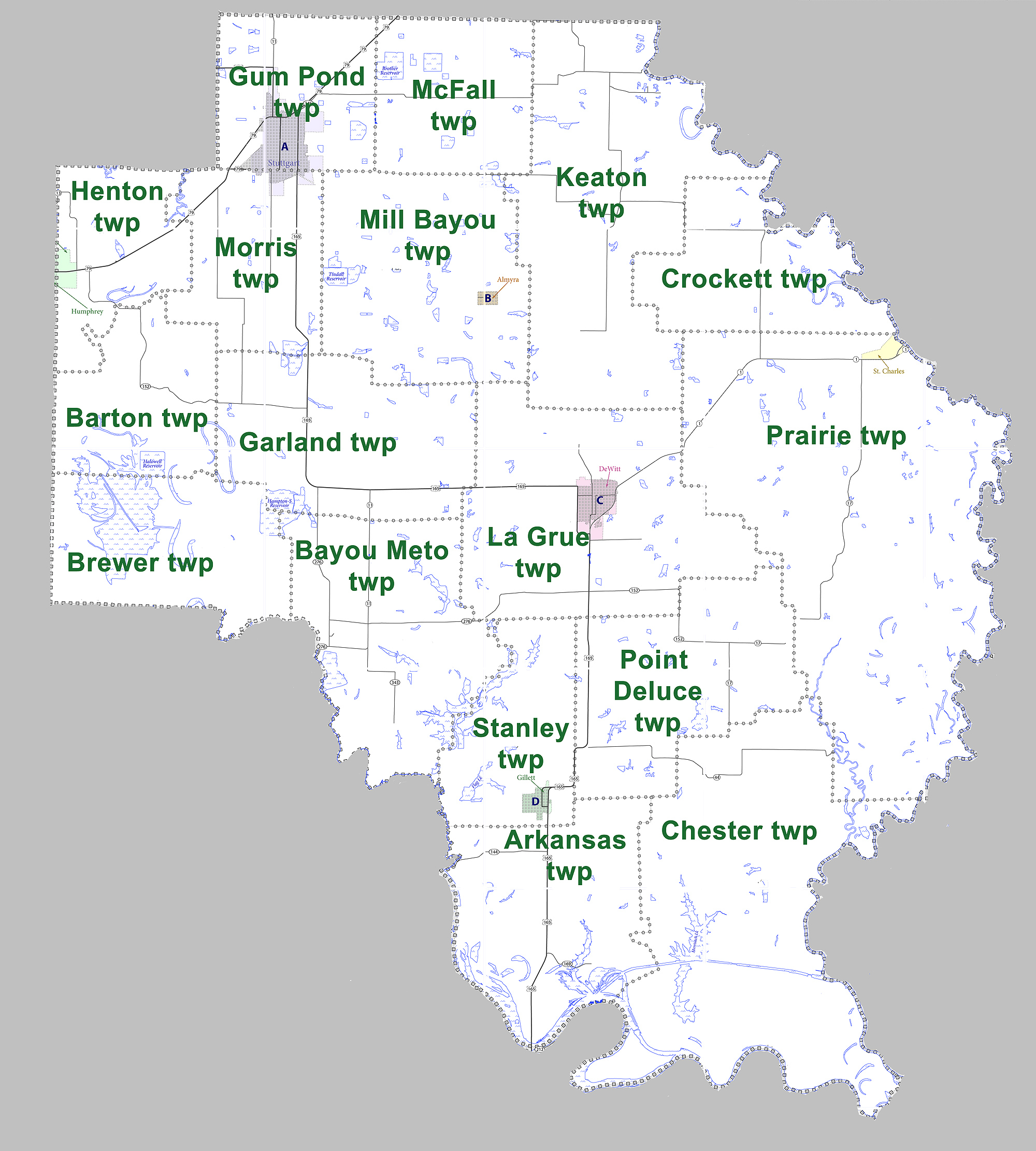 Large map showing townships in Arkansas County, Arkansas. Modified from US census map (for 2010 census) for Arkansas County, Arkansas